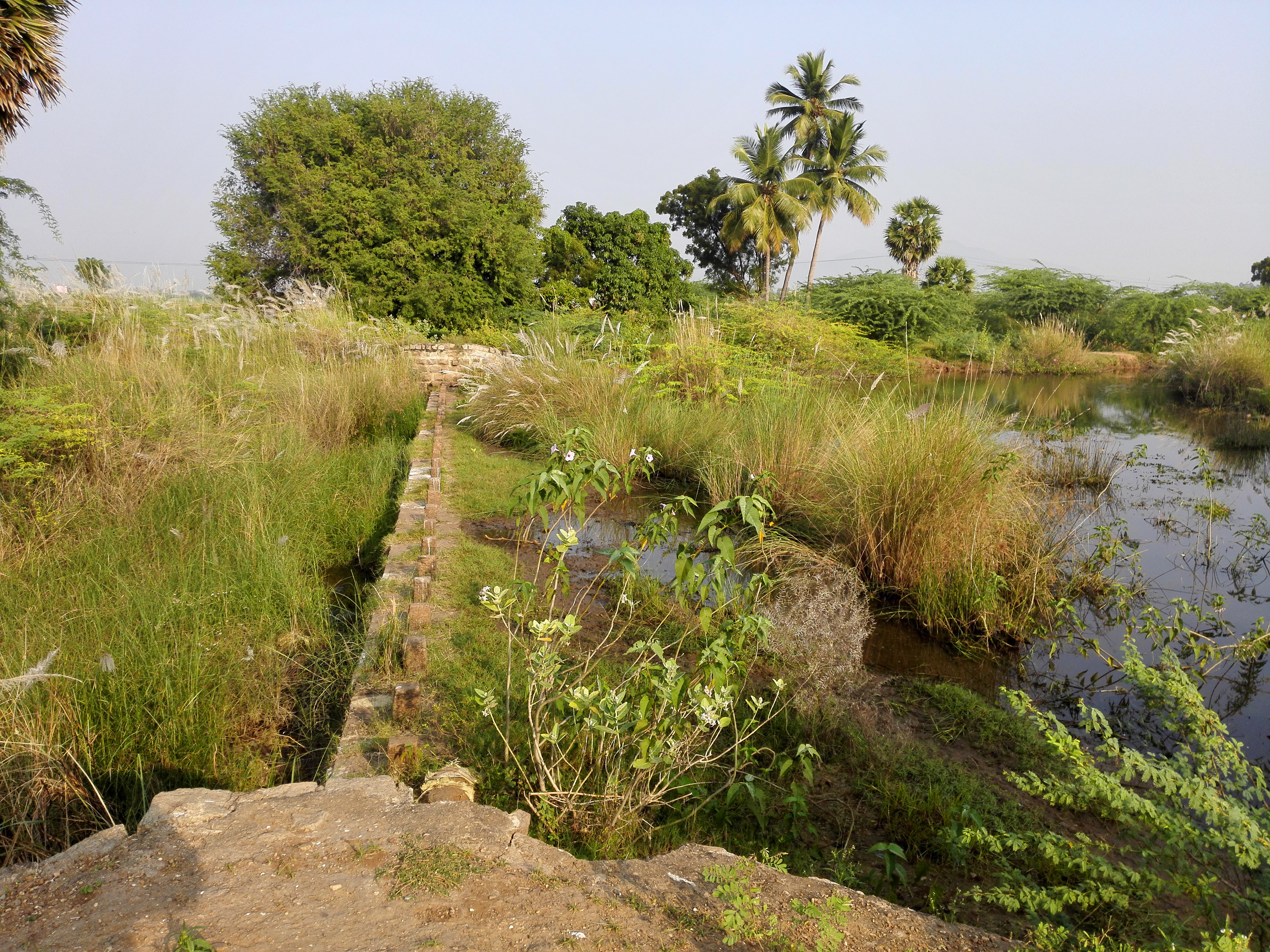 Weir of a village tank in Madurai district of Tamil Nadu. Here the weir is located in the inlet channel itself so as to allow diversion of water to other tanks in the chain before the tank gets filled